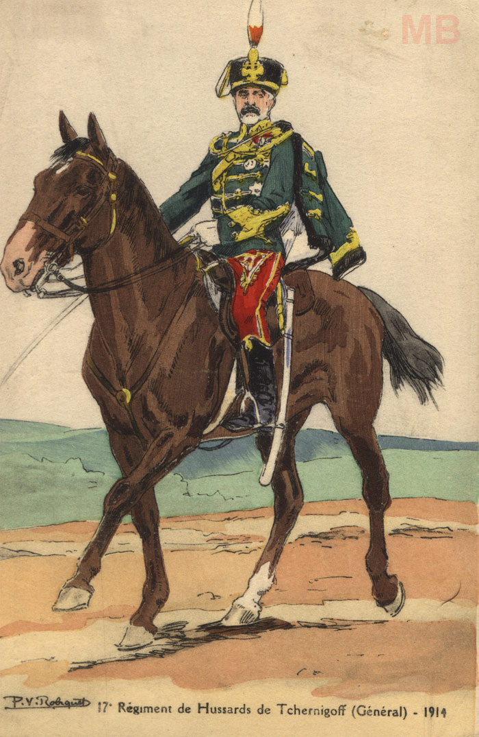 Uniform of Husar 17-th Chernigov Regiment. 1914 Postcard.